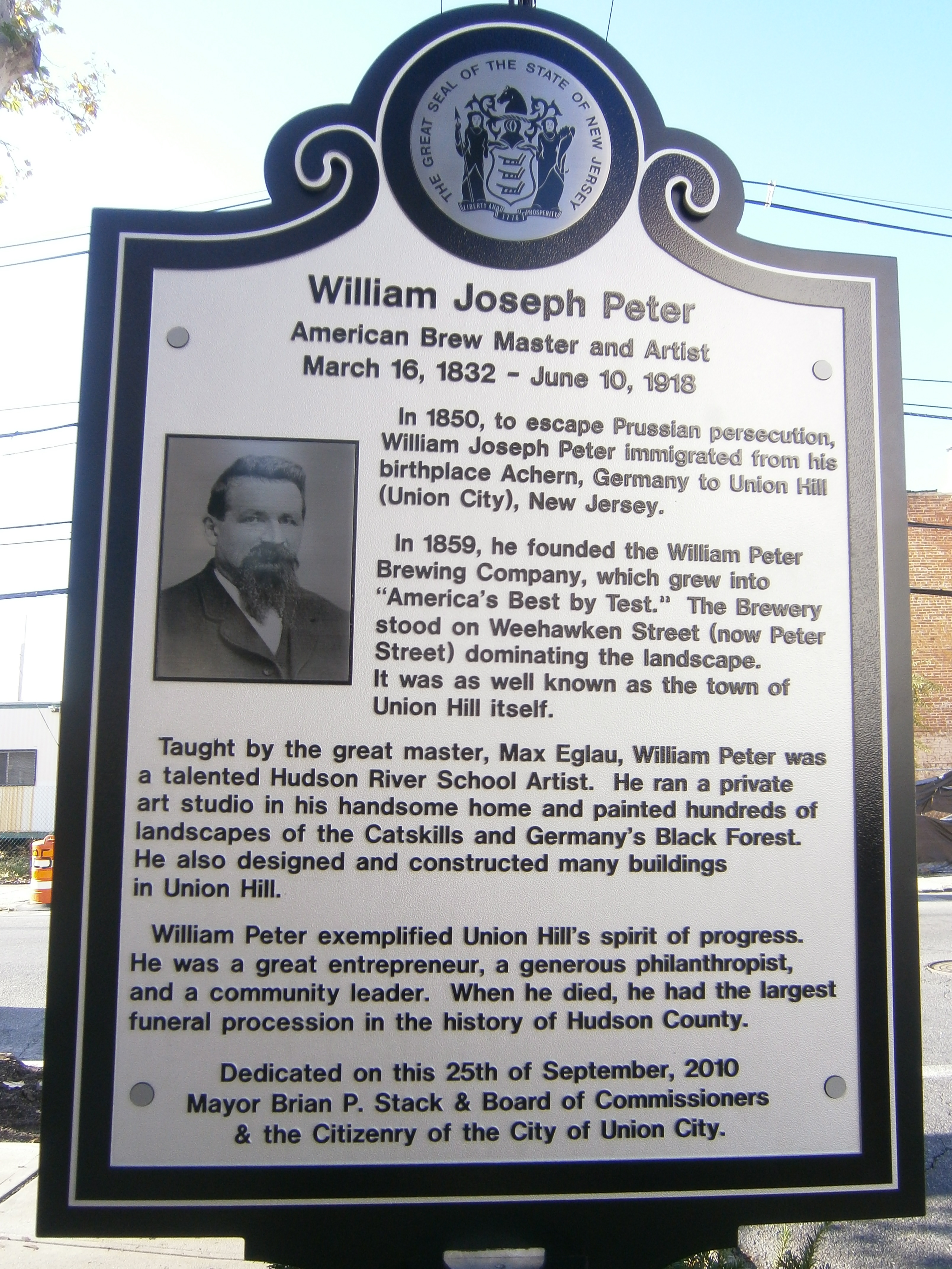 William Joseph Peter-brew master and painter